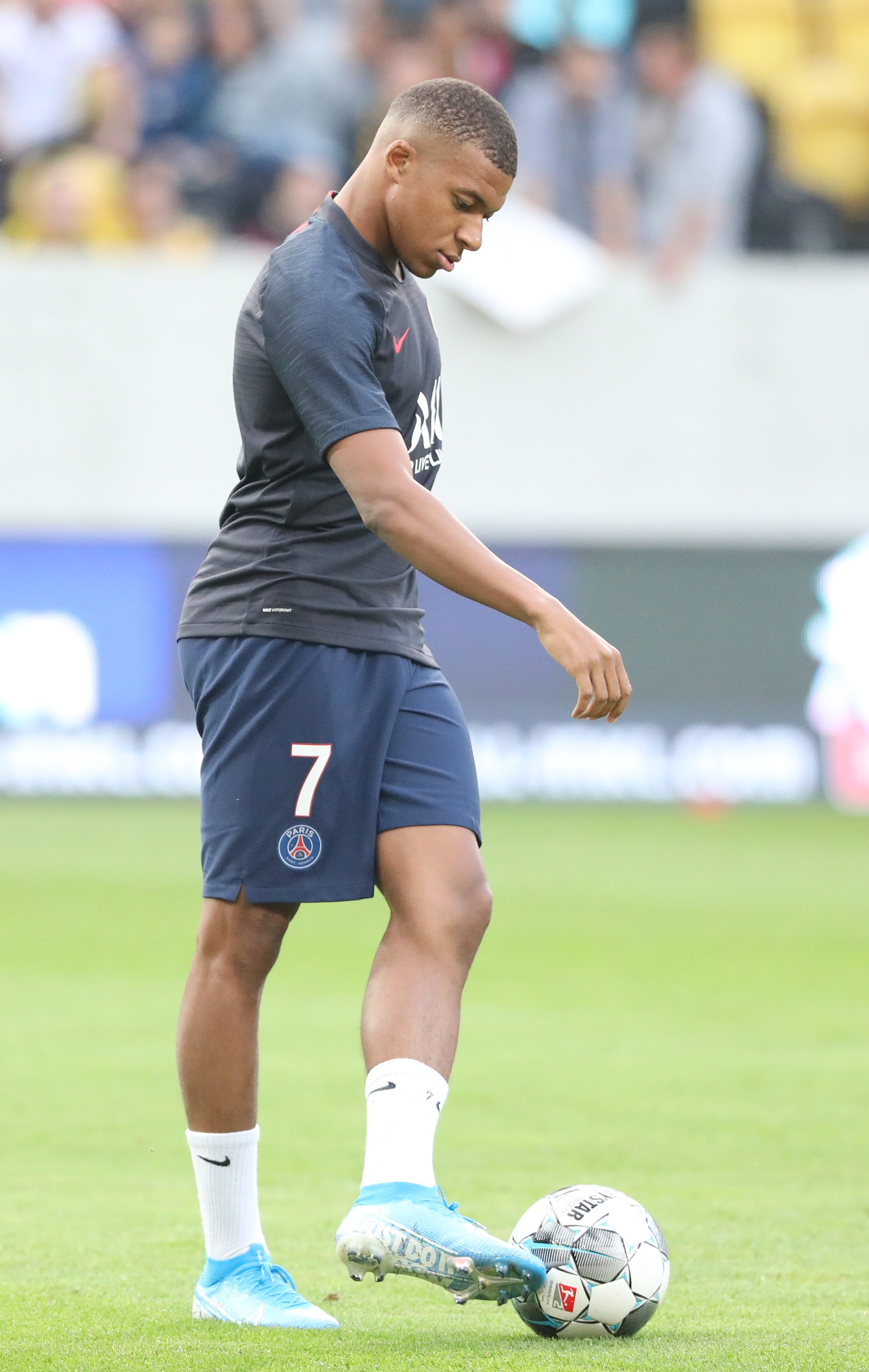 Test game, 17th July 2019: SG Dynamo Dresden vs. Paris Saint-Germain 1:6 (0:3)